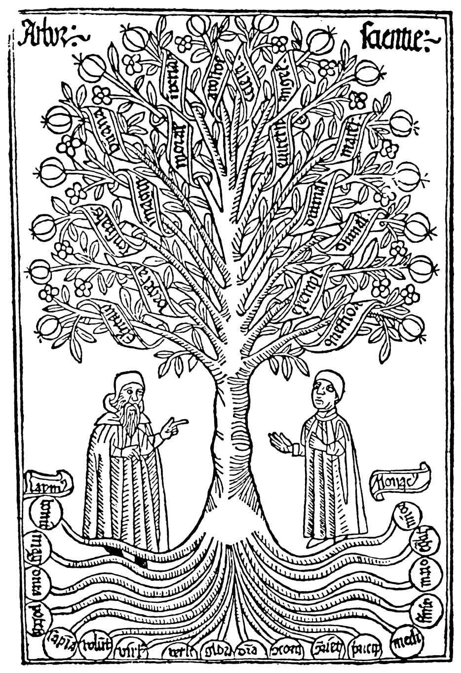 Arbor scientiae